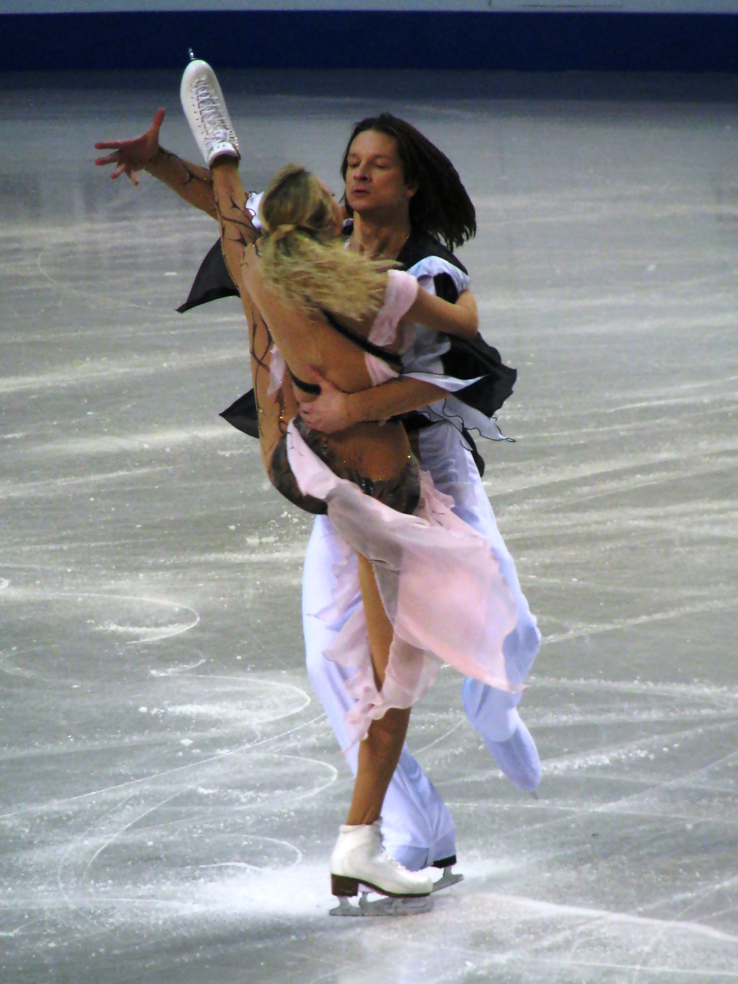 Domnina & Shabalin in 2010 European Figure Skating Championships